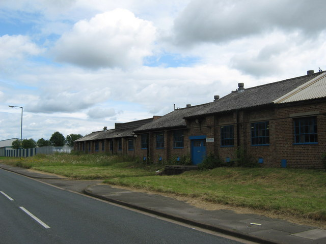 Former WW2 Royal Ordnance Factory building Now occupied by timber merchants,one of the few original buildings remaining. Situated in Aycliffe Industrial Estate Newton Aycliffe County Durham.